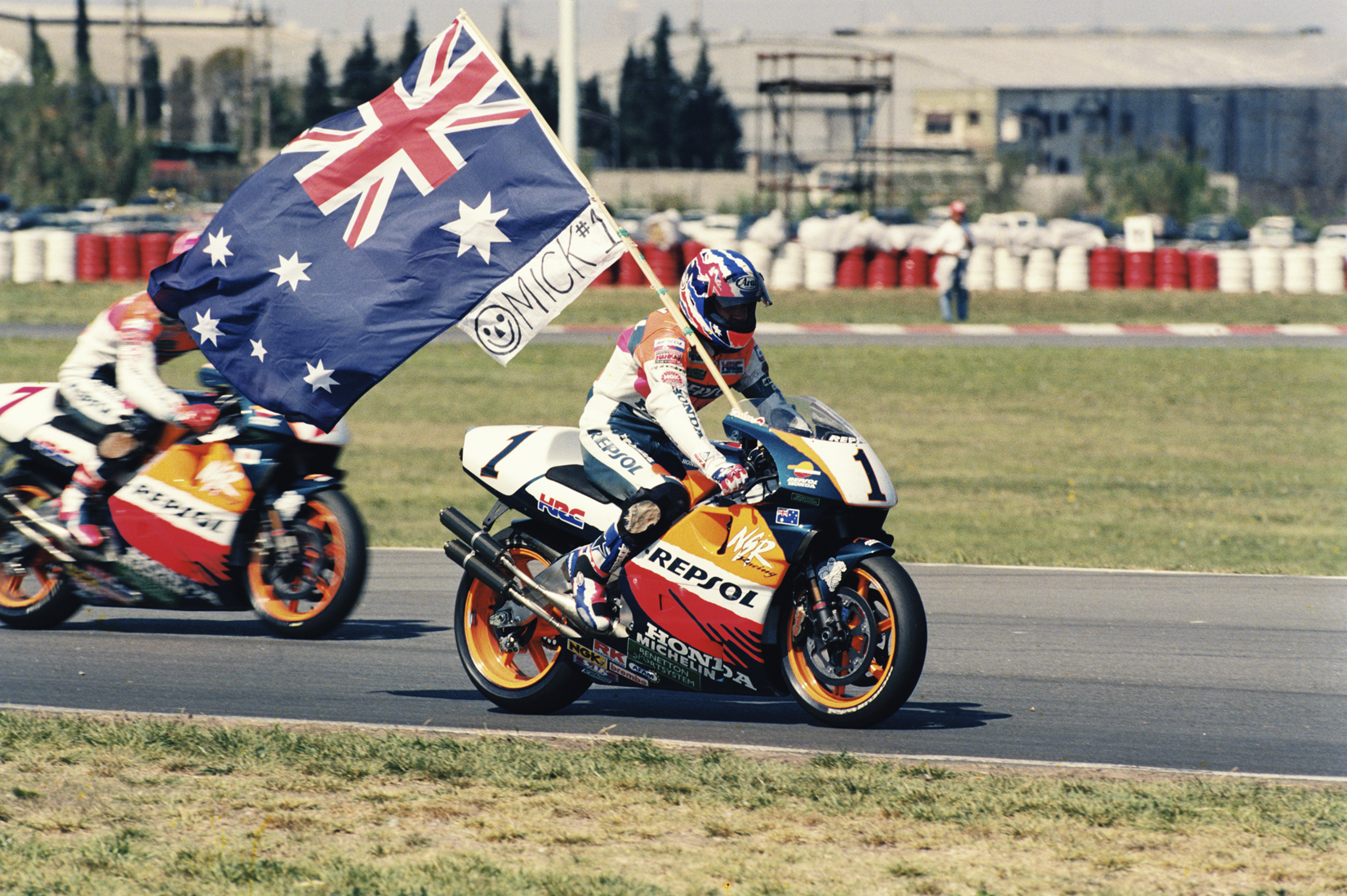 Mick Doohan, sitting on his Repsol Honda, celebrating with the Australian flag after winning the 1995 Argentine Grand Prix, as well as his second consecutive 500cc world championship title, with the other Repsol Honda of Shinichi Ito in the back.